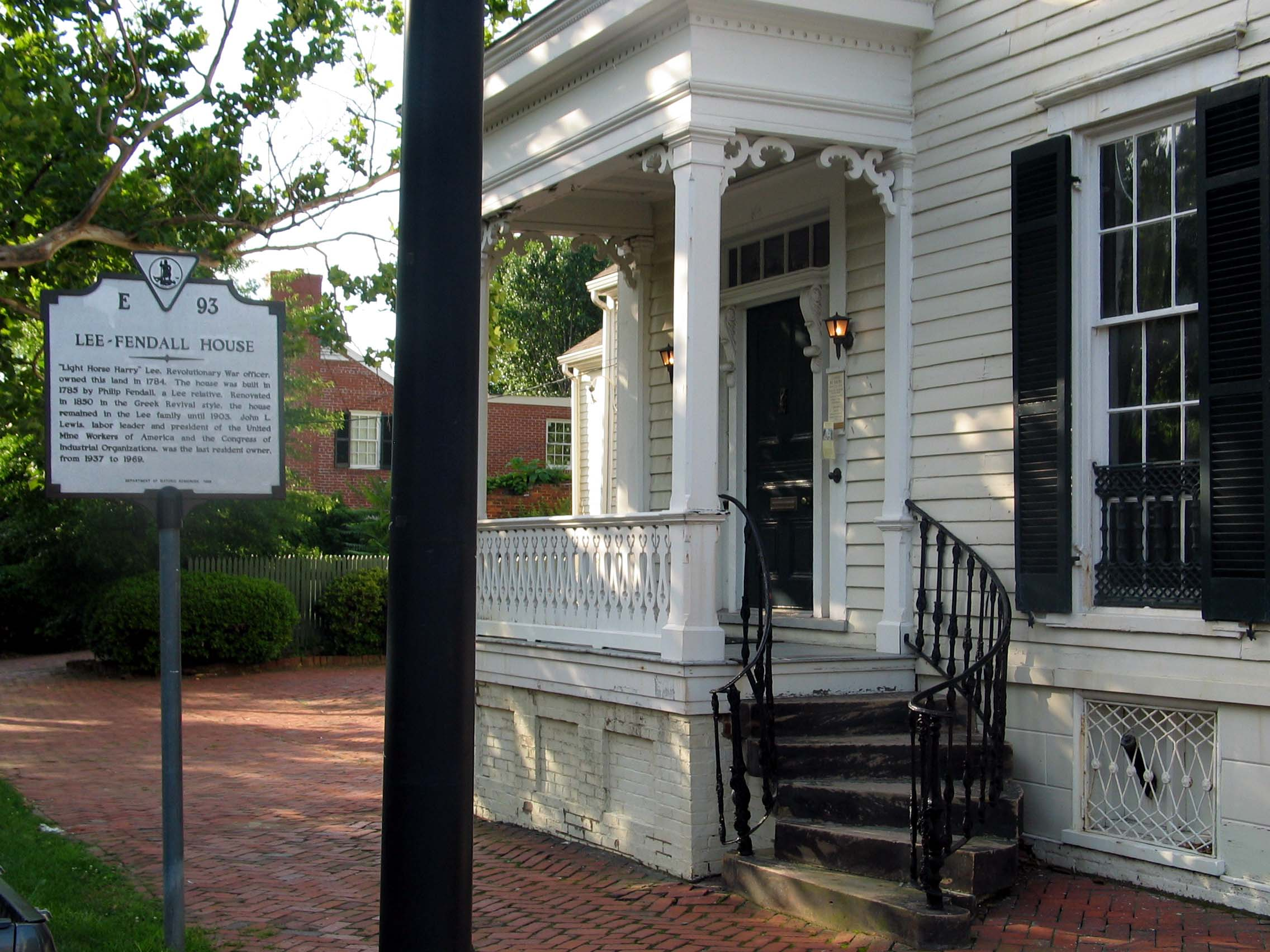 Front porch view of Lee-Fendall House in 2004 Picture taken by downloader on trip to Alexandria, Virginia.